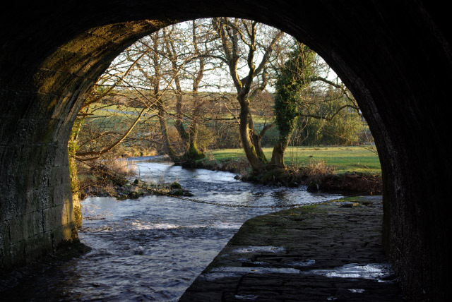 Stainton Beck, Stainton Seen from under the Lancaster Canal aqueduct, looking downstream.